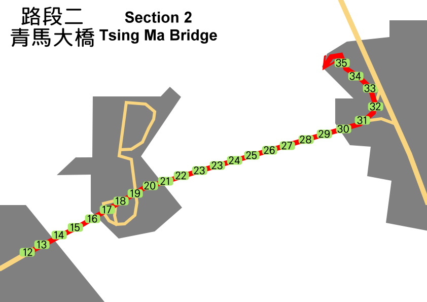 2008 Summer Olympic Torch Relay in Hong Kong, Section 2, Tsing Ma Bridge